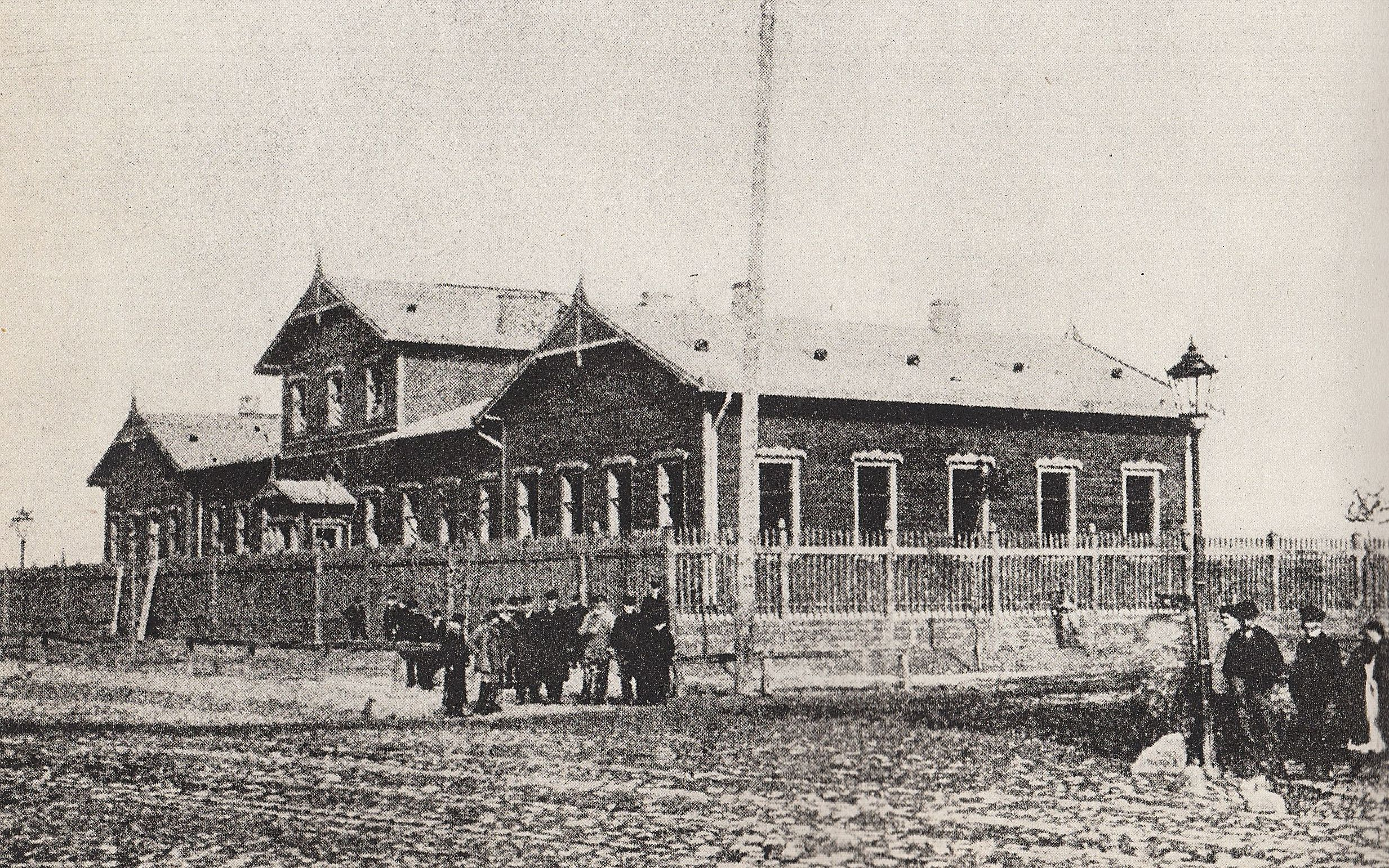 Homeless shelter of Albertine Brothers (so-called circus) at 4 Dzika Street in Warsaw